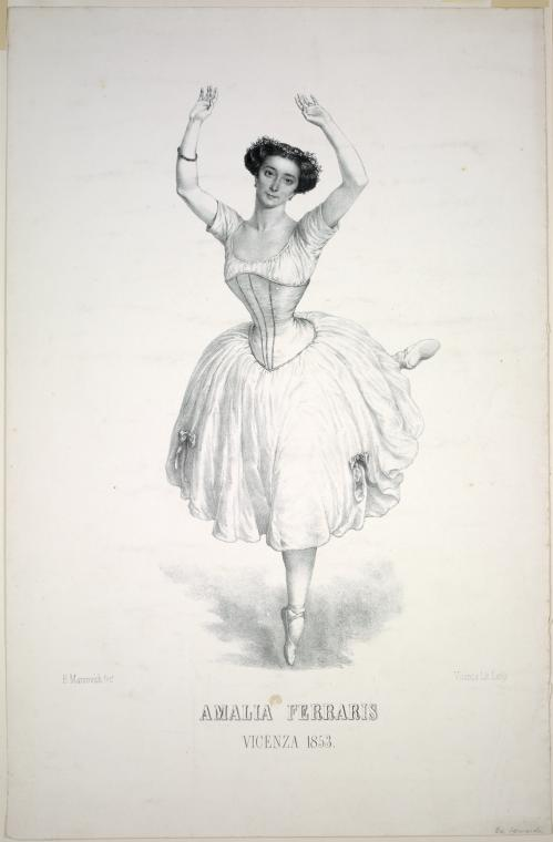 Amalia Ferraris dancing, Vicenza 1853